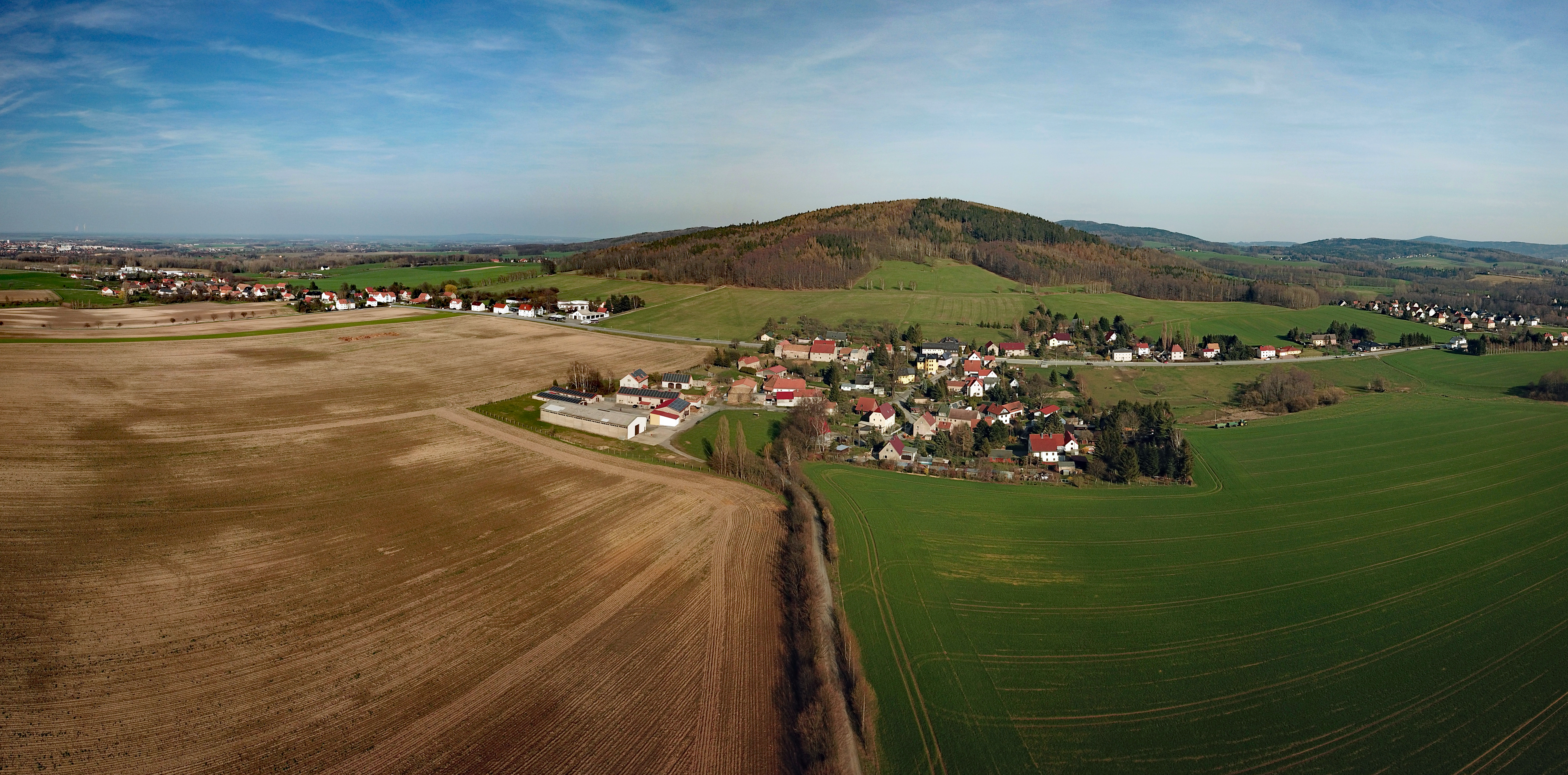 Rascha (Großpostwitz, Saxony, Germany) Hornjoserbsce: Powětrowy wobraz Rašowa Dieses Foto wurde mit einem Quadcopter innerhalb der RMZ des Flugplatzes EDAB aufgenommen. Der Flugleiter wurde am Aufnahmetag telephonisch über Ort und Zeit informiert und hat zugestimmt. Der Flug erfolgte auf Grundlage der Allgemeinverfügung der Landesdirektion Sachsen zur Erteilung der Betriebserlaubnis für unbemannte Luftfahrtsysteme und Flugmodelle gemäß § 21a LuftVO und Zulassung von Ausnahmen von Betriebsverboten gemäß § 21b LuftVO für den Freistaat Sachsen.